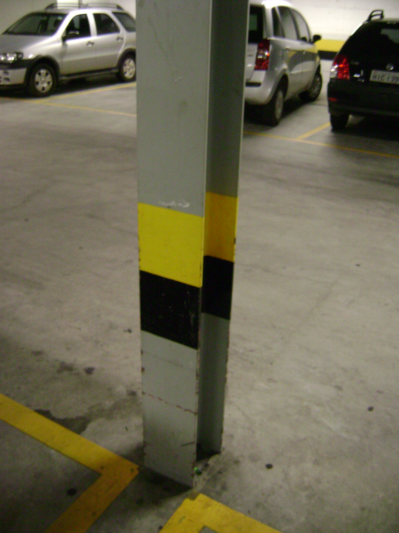 Pilastra de estacionamento.